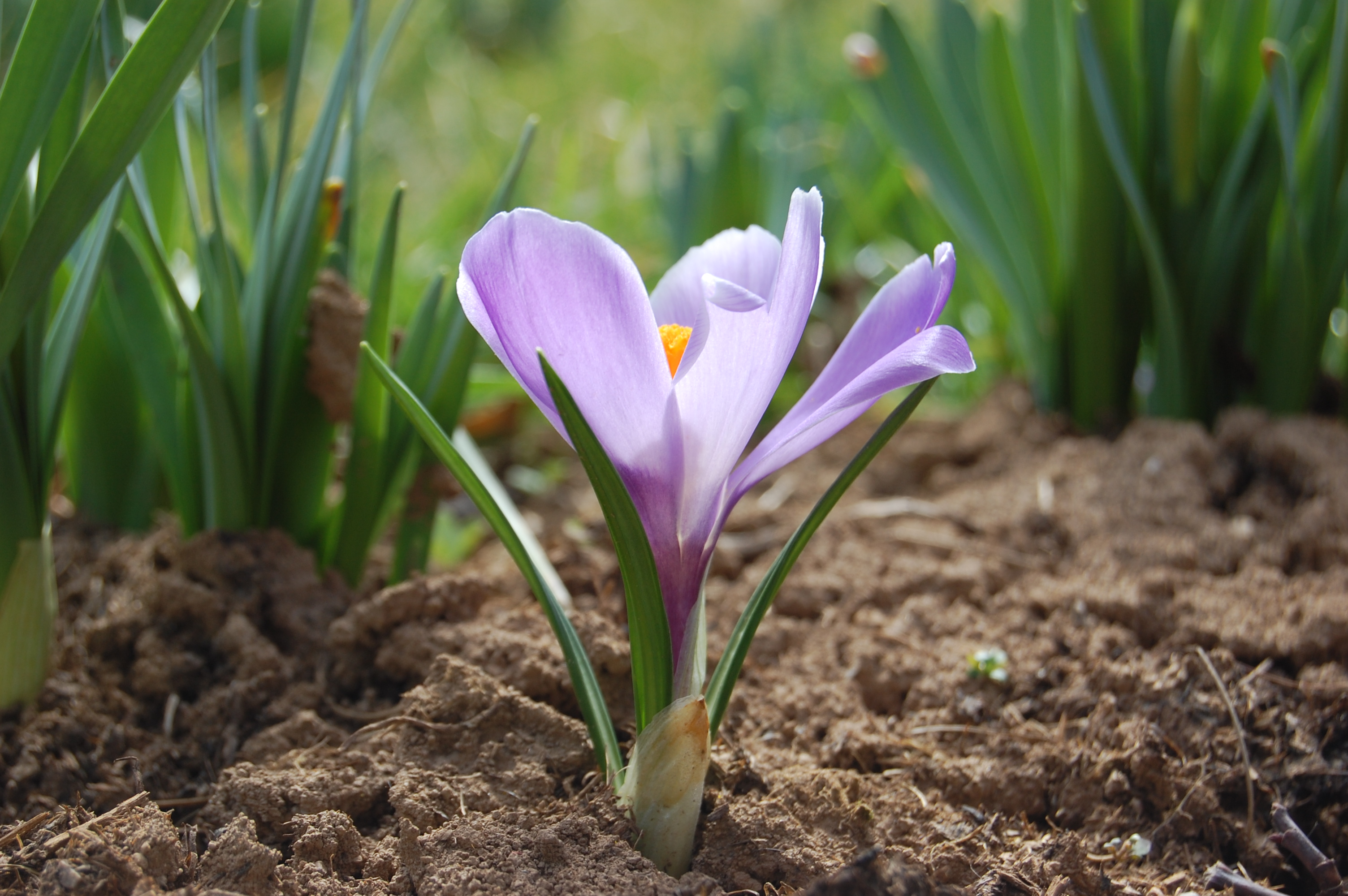 Crocus vernus